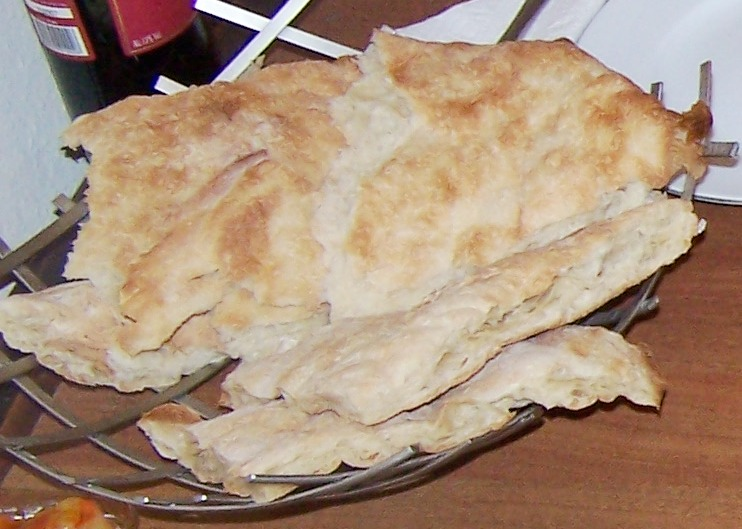 Georgian Feast